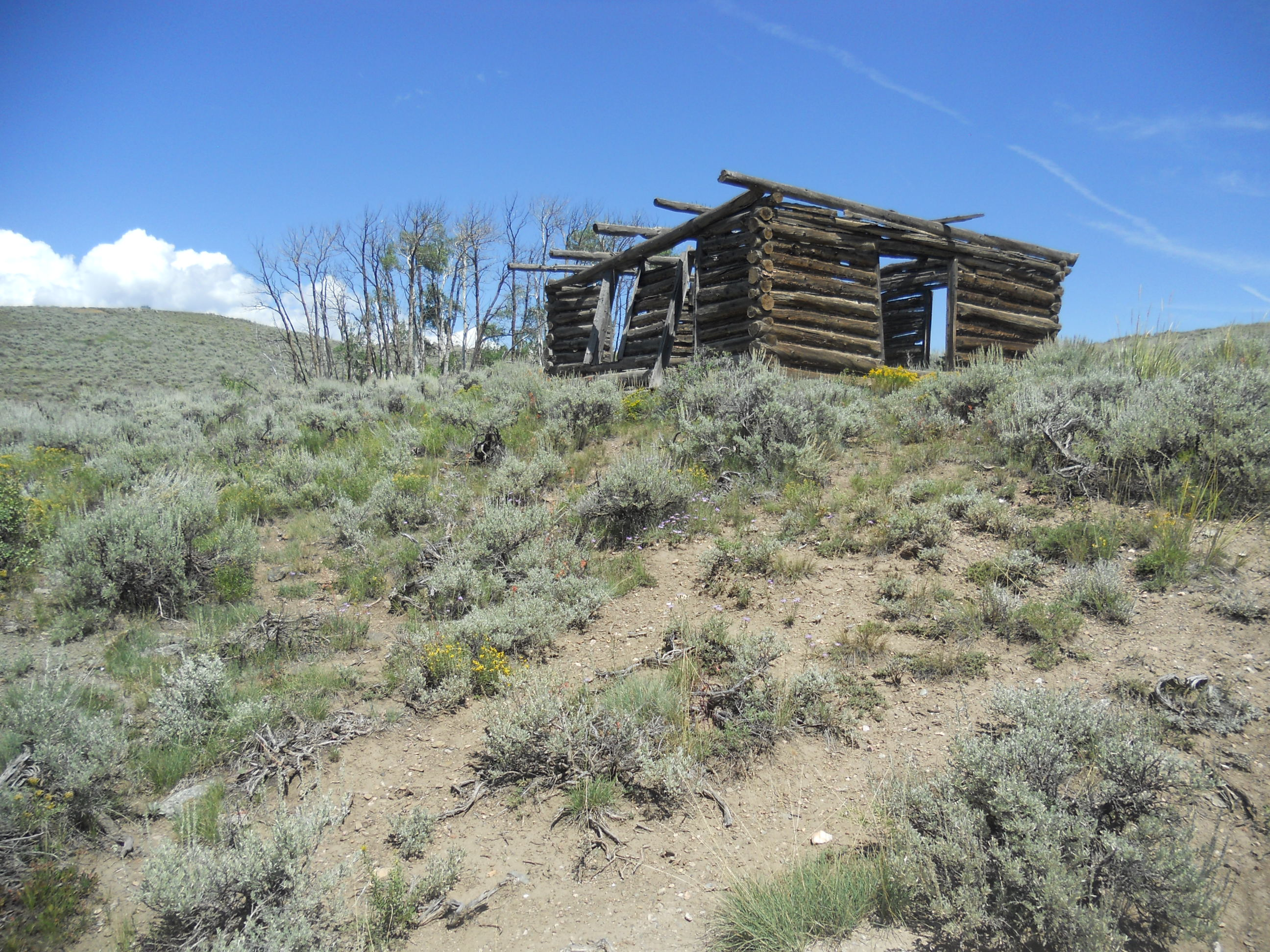 An abandoned building in Vulcan, a once productive mining town in the Gunnison Gold Belt of Colorado.